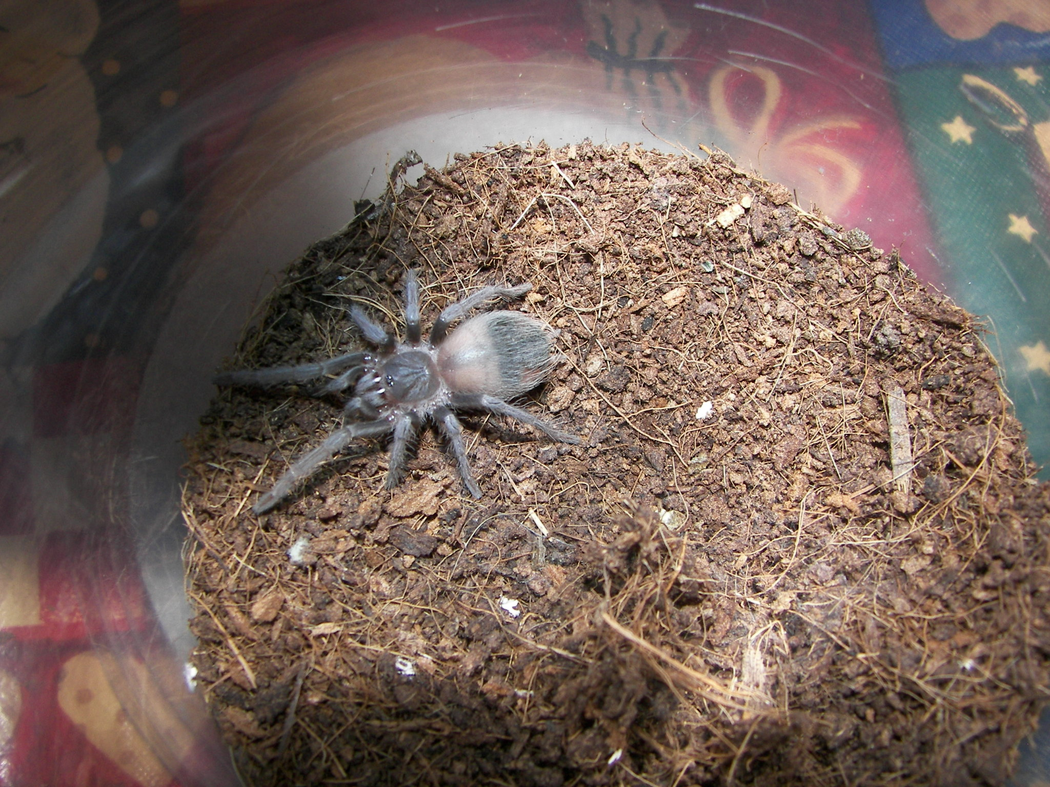 Lasiodora klugi, spiderling.